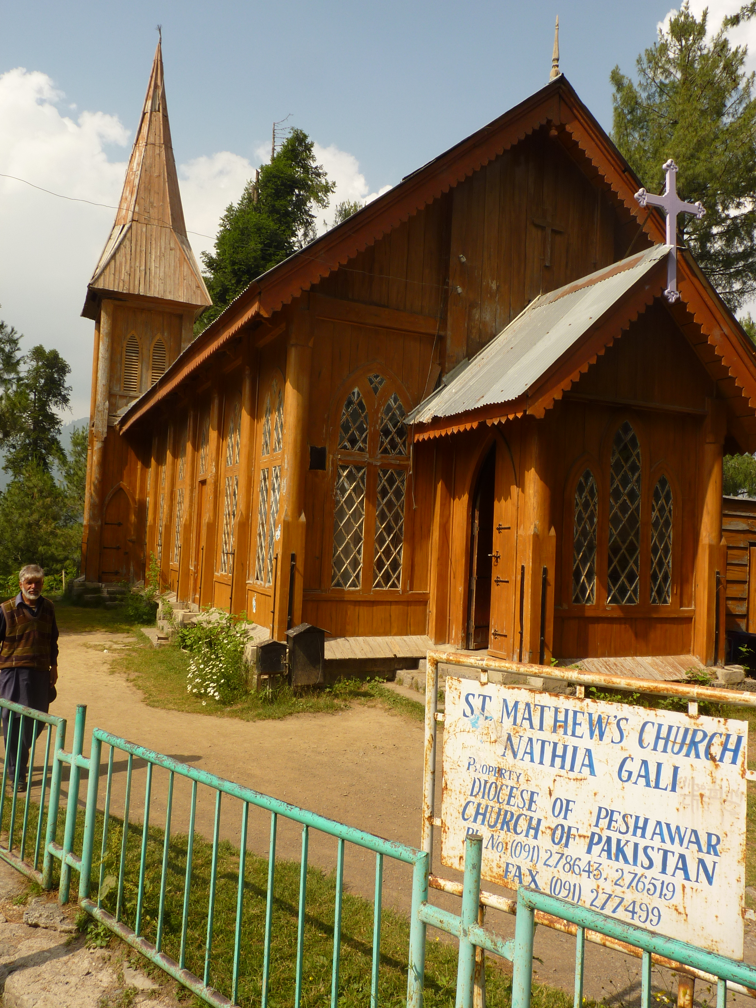 Saint Matthew Church, Nathia Gali, Pakistan.